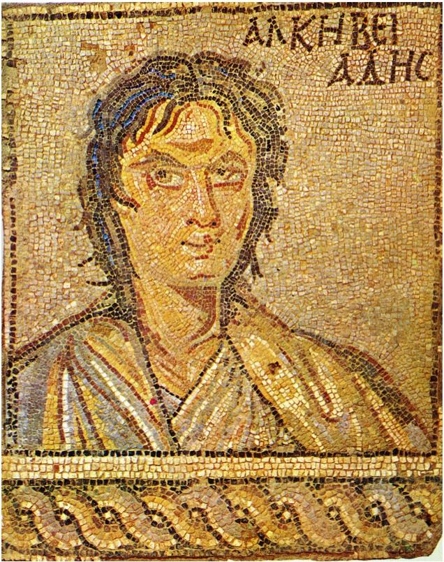 Pavement mosaic found at Sparta, Greece. Note: This is not the famous Athenian politician and general, but a Spartan homonyme of the early 2nd century B.C. For details see the study of German Hafner.